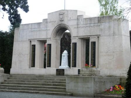 The monument aux morts at Doullens in the Somme region